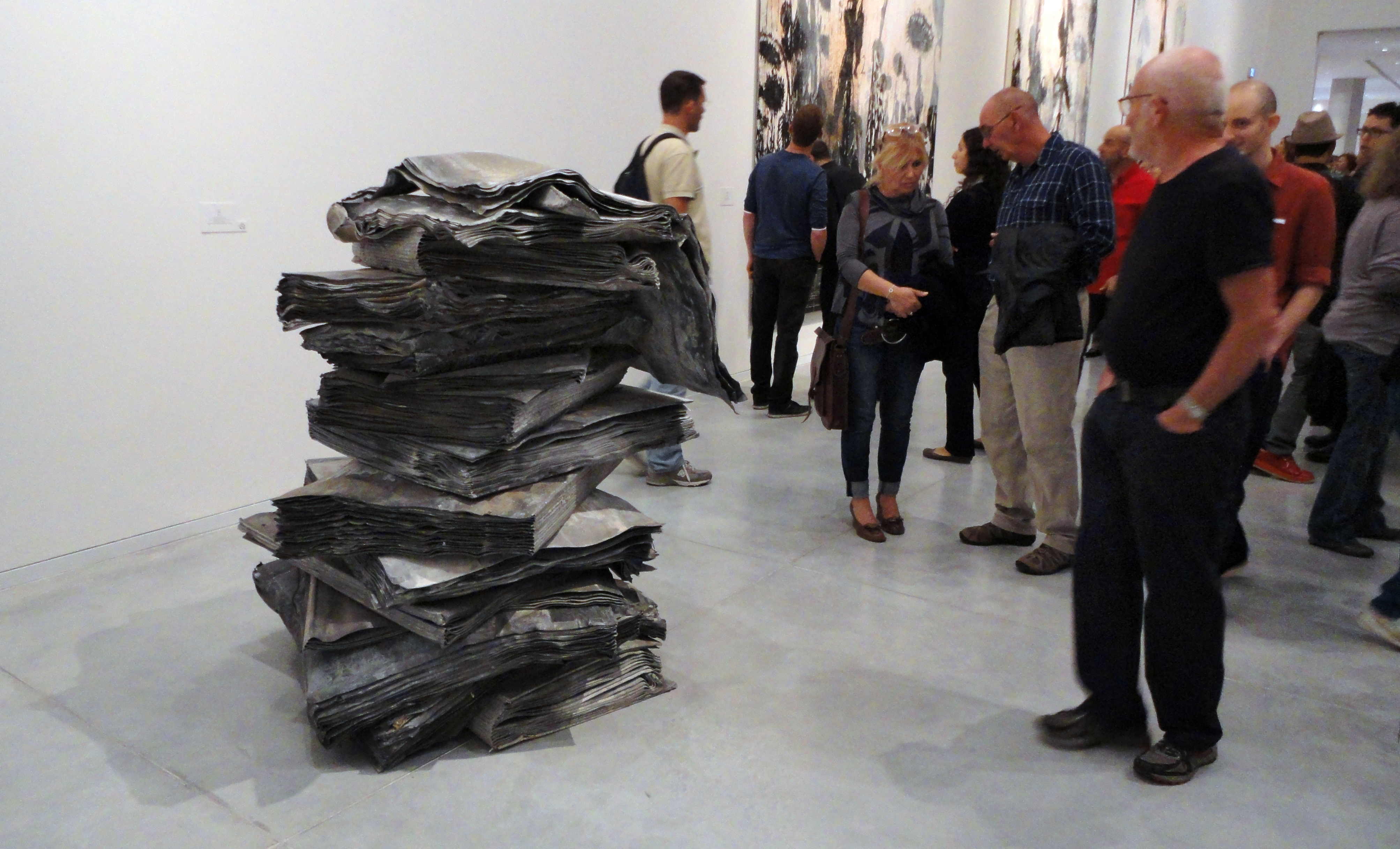 Opening of the Exhibition Anselm Kiefer: SHEVIRAT HA-KELIM [Breaking of the Vessels] at the Herta and Poul Amir Building, Tel Aviv Museum of Art, 1.11.2011.